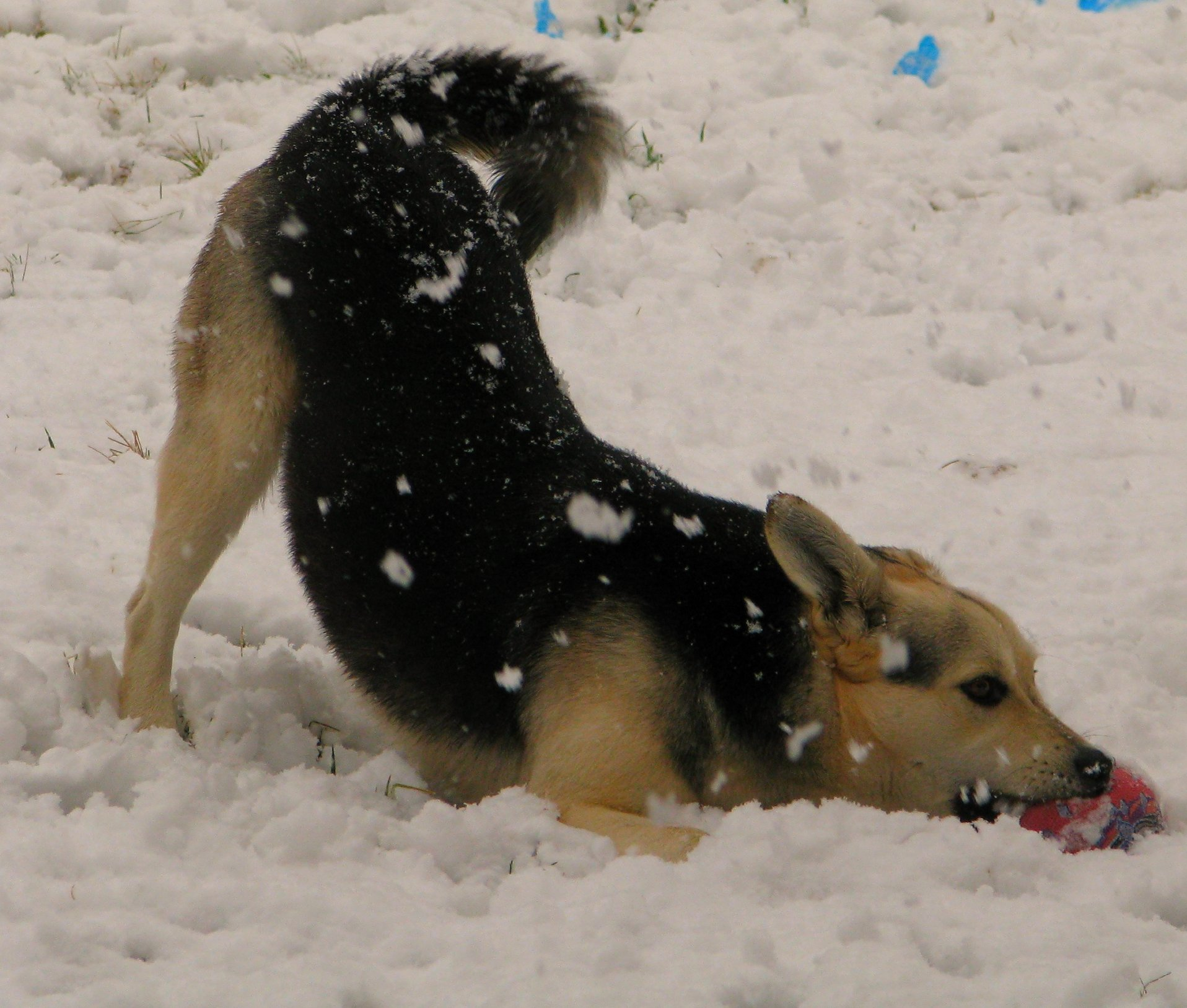 The Wolf Dog playing with a ball in the snow